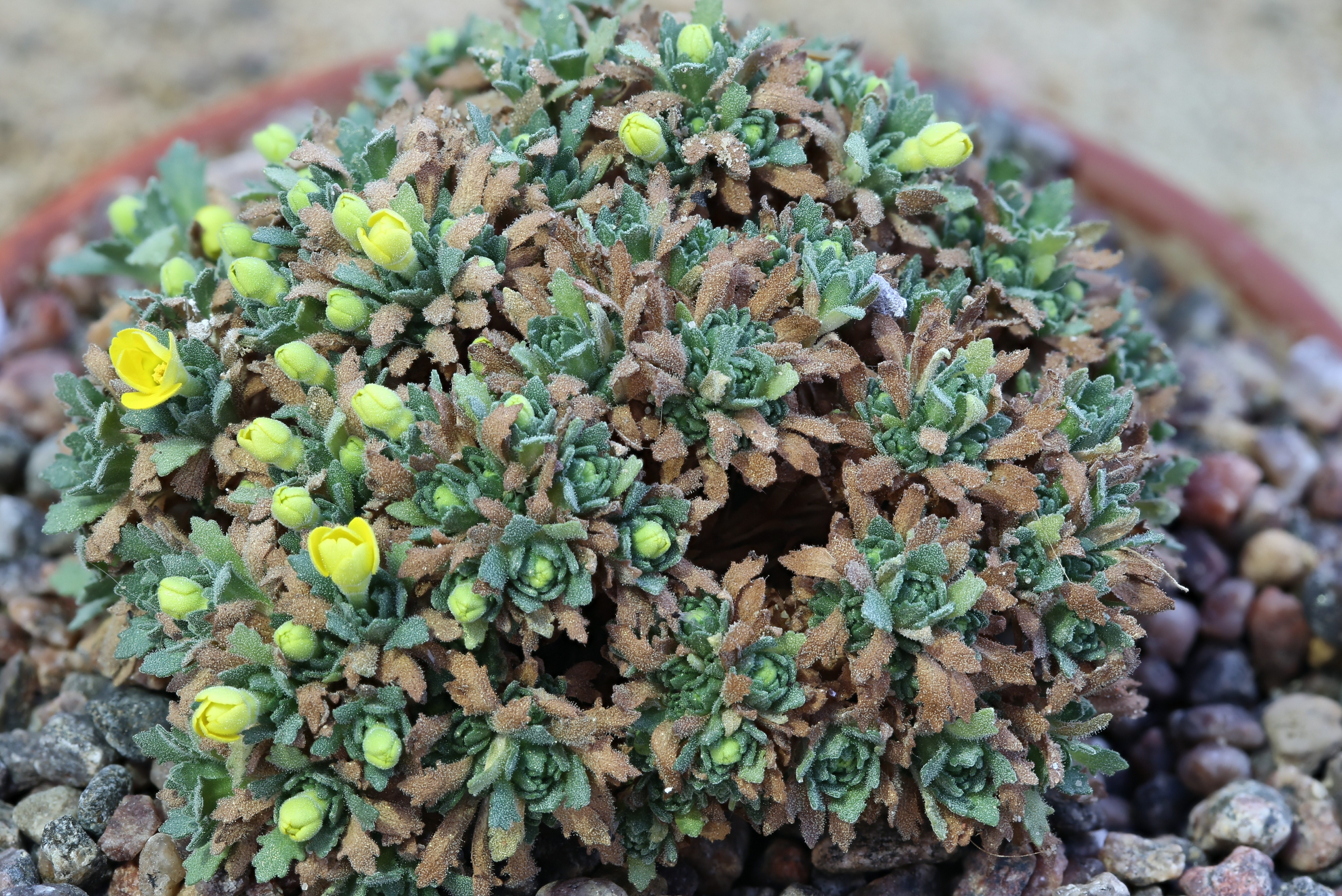 Dionysia termeana at Gothenburg Botanical Garden 2015. Plant id: 2003-167 s W -- Jaeger; JLMS 02-034